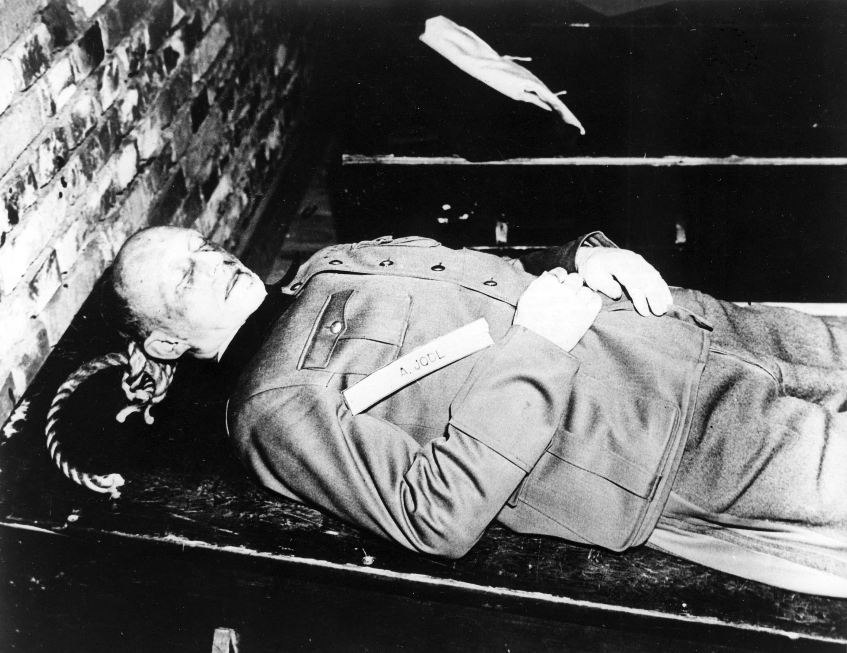 The body of Alfred Jodl after being hanged, Oct. 16, 1946.